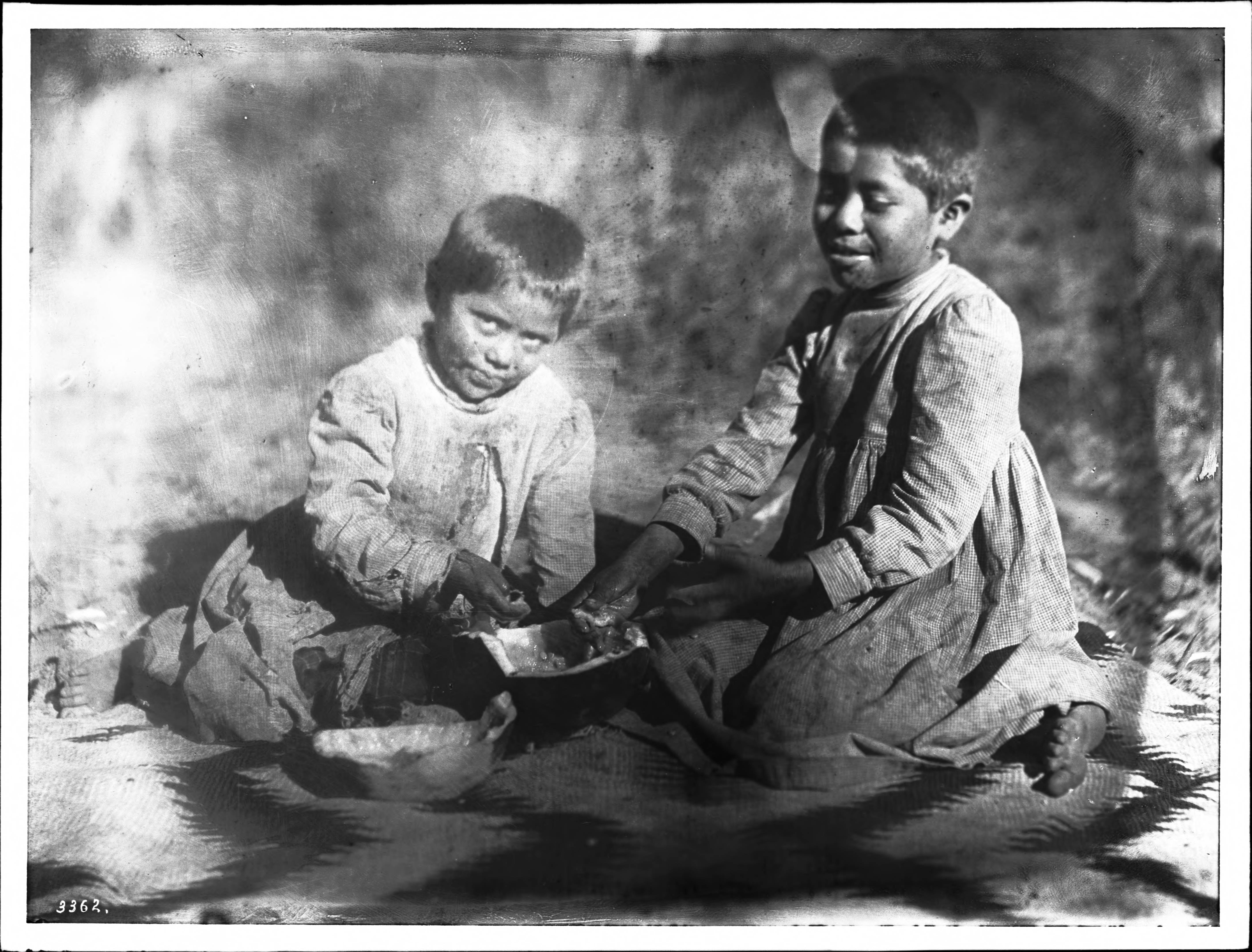 Two Havasupai Indian children, the daughters of Chickapanagie's, enjoy a mellon, ca.1900 Photograph of two Havasupai Indian children, the daughters of Chickapanagie's, enjoying a mellon, ca.1900. Both are wearing checkered dresses and are barefooted. They sit on a blanket with a zig-zag pattern with their hands in a half mellon between them. Their hair is cut very short. Call number: CHS-3362 Photographer: Pierce, C.C. (Charles C.), 1861-1946 Filename: CHS-3362 Coverage date: circa 1900 Part of collection: California Historical Society Collection, 1860-1960 Type: images Part of subcollection: Title Insurance and Trust, and C.C. Pierce Photography Collection, 1860-1960 Repository name: USC Libraries Special Collections Format: glass plate negatives Microfiche number: 1-167- Archival file: chs_Volume94/CHS-3362.tiff Repository address: Doheny Memorial Library, Los Angeles, CA 90089-0189 Geographic subject (country): USA Format (aacr2): 2 photographs : glass photonegative, photoprint, b&w ; 17 x 22 cm. Rights: Digitally reproduced by the USC Digital Library; From the California Historical Society Collection at the University of Southern California Subject (adlf): tribal areas Project: USC Accession number: 3362 Repository Contributing entity: California Historical Society Date created: circa 1900 Publisher (of the digital version): University of Southern California. Libraries Format (aat): photographic prints; photographs Legacy record ID: chs-m15998; USC-1-1-1-13517 Access conditions: Send requests to address or e-mail given. Phone (213) 821-2366; fax (213) 740-2343. Subject (file heading): Indians -- Havasupai Subject (lcsh): Indians of North America; Havasupai Indians; Clothing and dress; Food Subject: Havasupai Indians